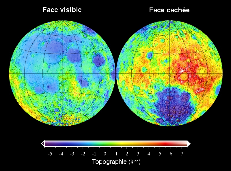 The topography of the Moon referenced to the lunar geoid. The topogographic model is derived from the spherical harmonic model USGS359, and the lunar geoid was obtained from the gravity model LP150Q. The color coded topography is overlain on a shaded relief map.Textes de l'image en français.